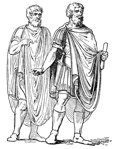 Men wearing an abolla, a loose wollen cloak worn by ancient Romans.